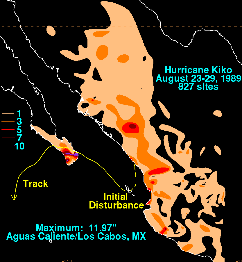 Storm total rainfall map of Hurricane Kiko during August 1989.